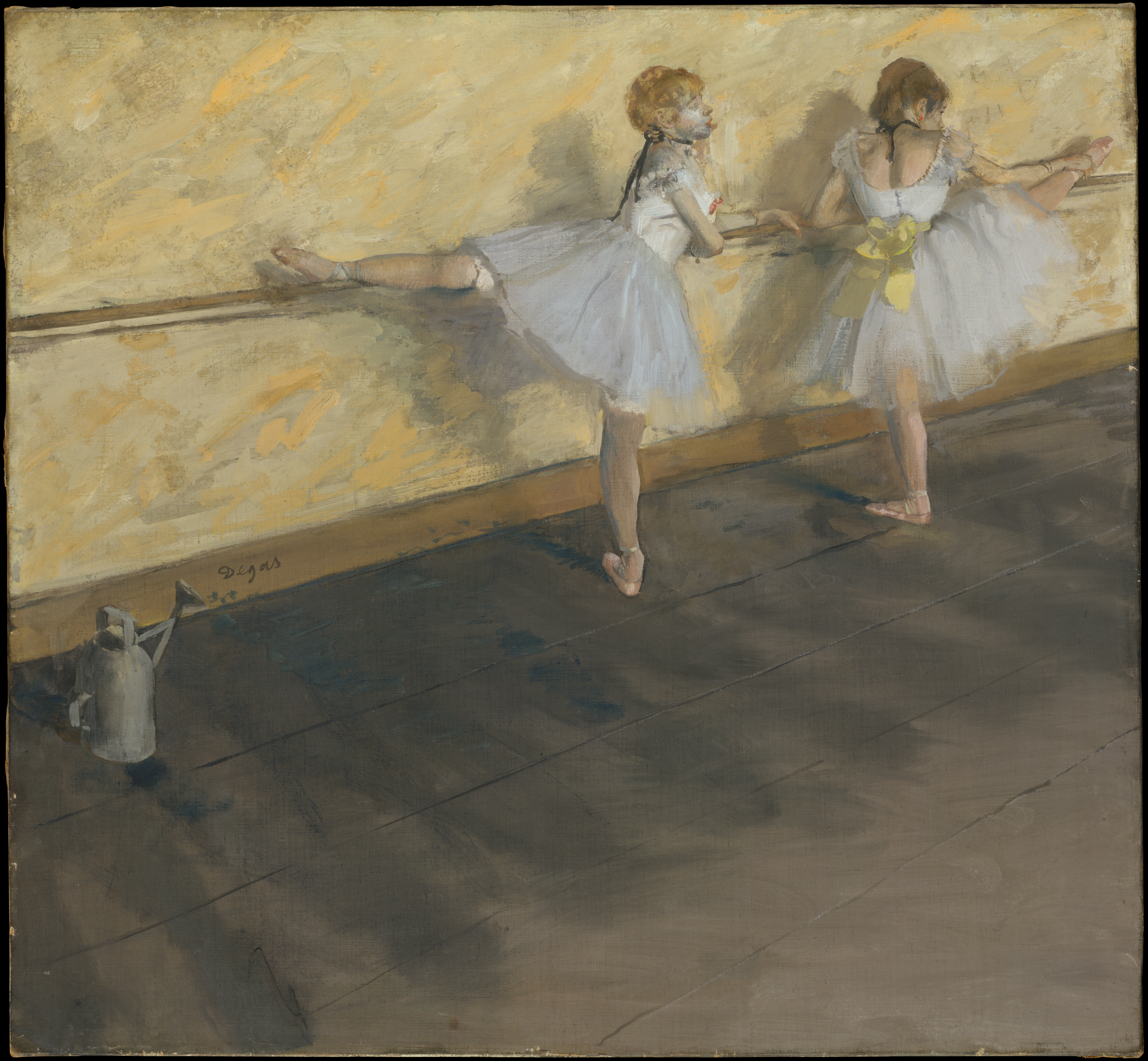 Dancers Practicing at the Bar